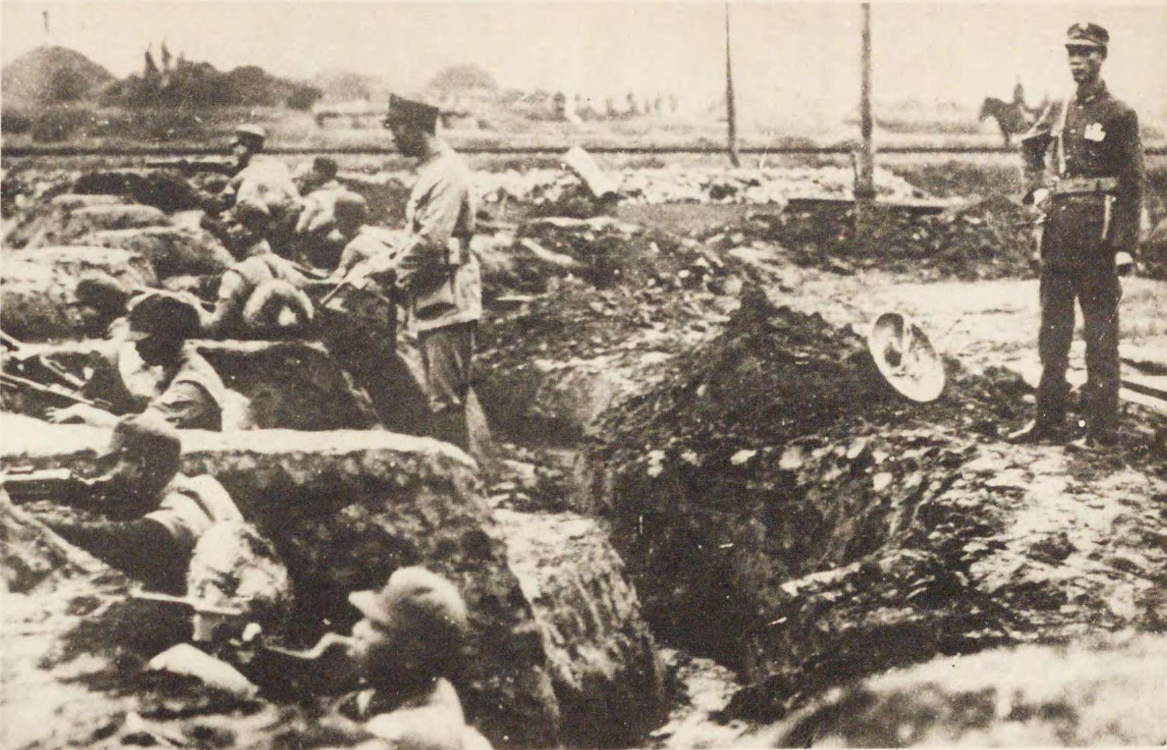 General Cai Ting-kai, the commander of the 19th Route Army, encouraging his men in the first line of the battle.